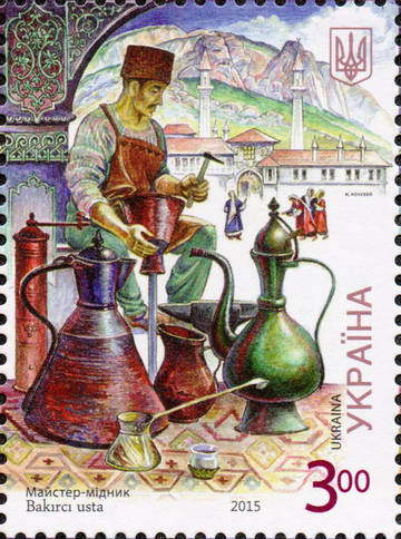 Stamp of Ukraine, 2015